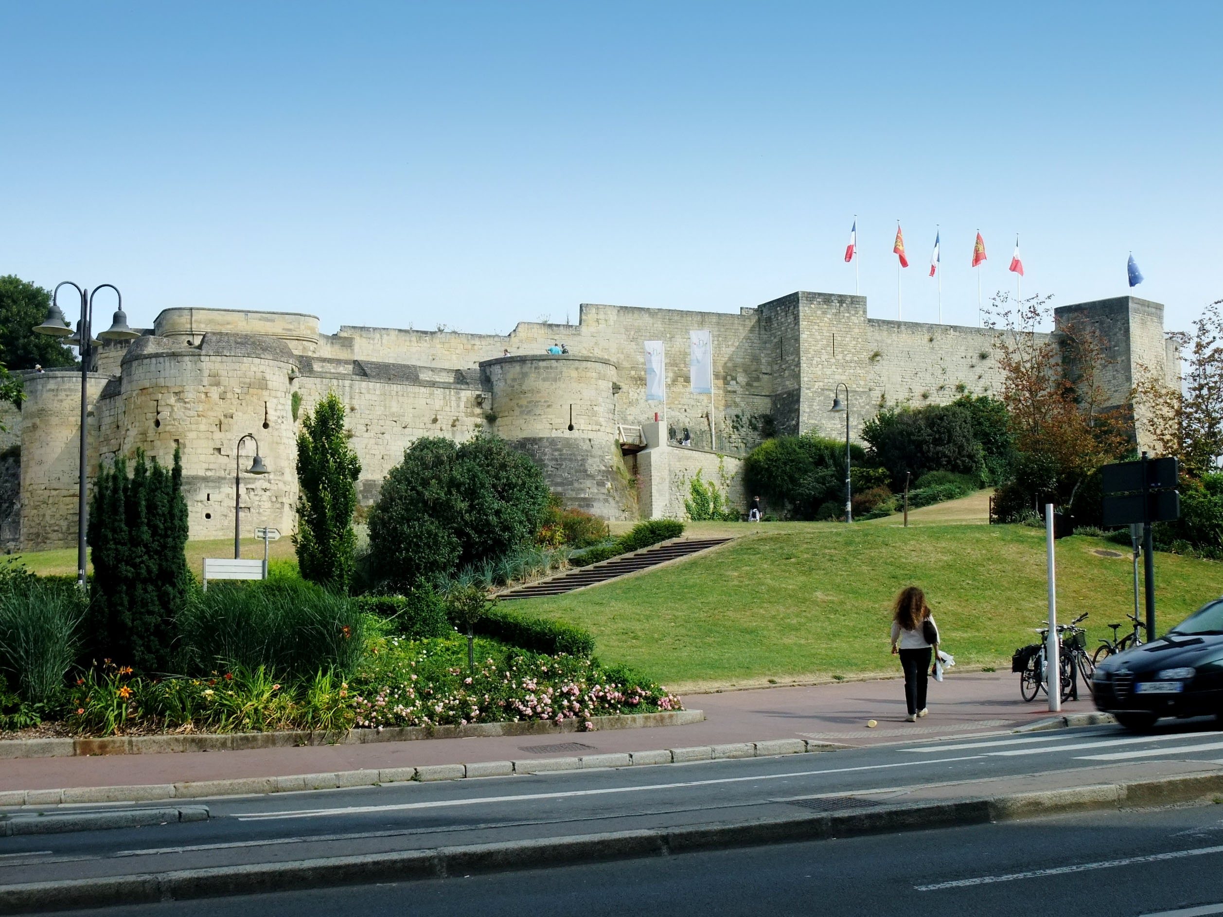 Castle of Caen, France